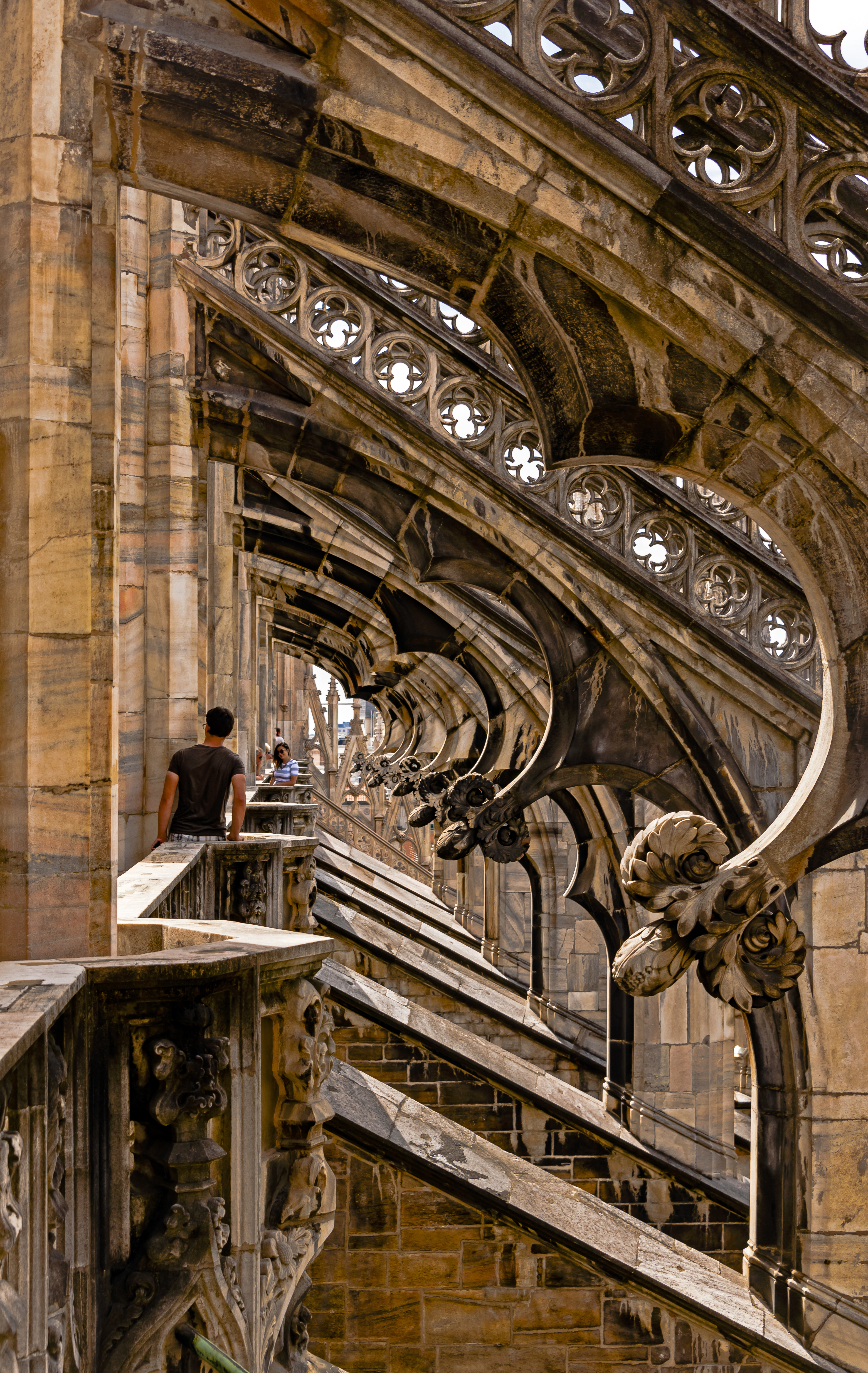 Tourists take in the view through the flying buttresses on the north side of the Milan Duomo